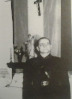 General Dalmiro Videla Balaguer